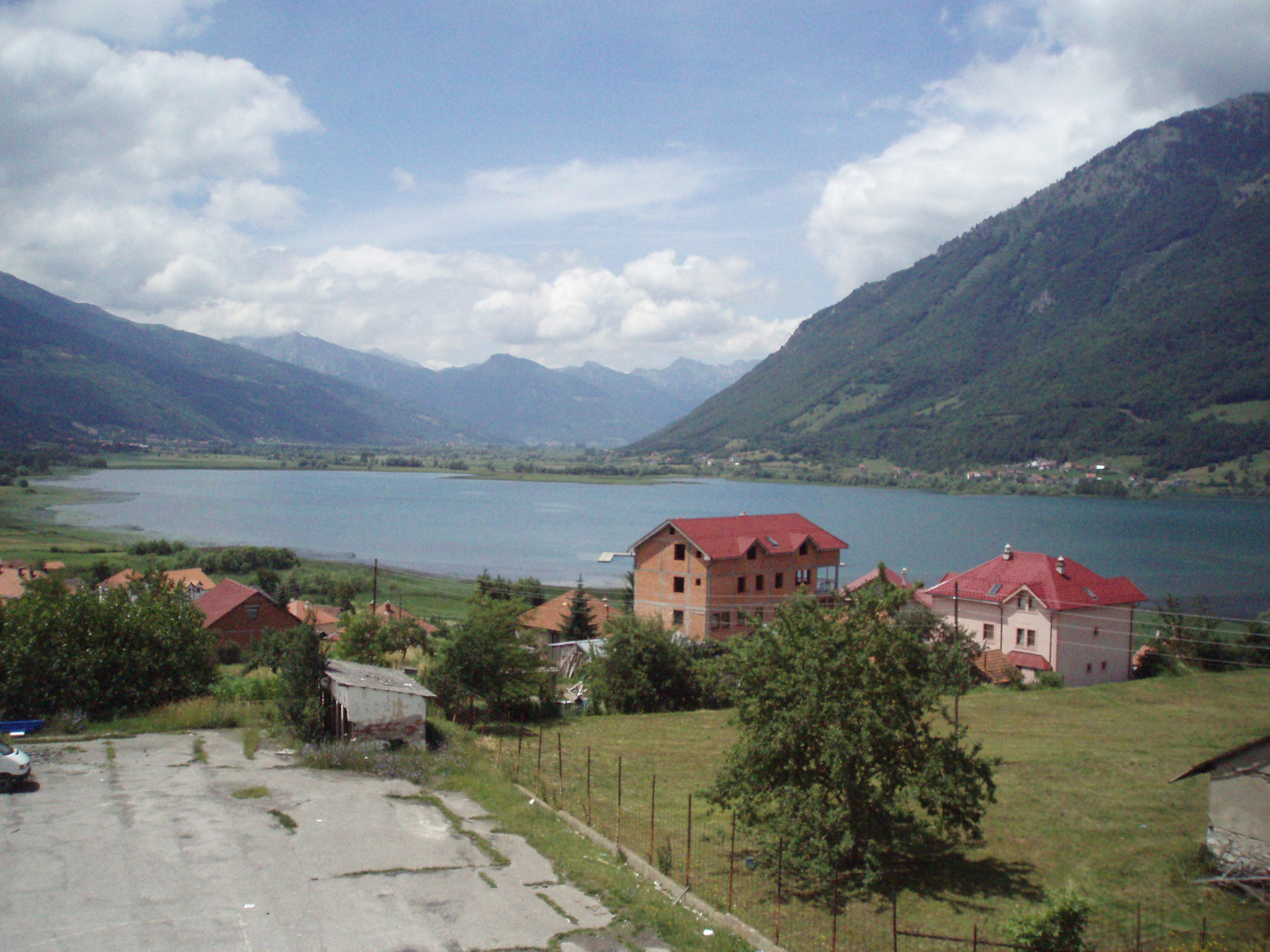 Lake Plav in Montenegro